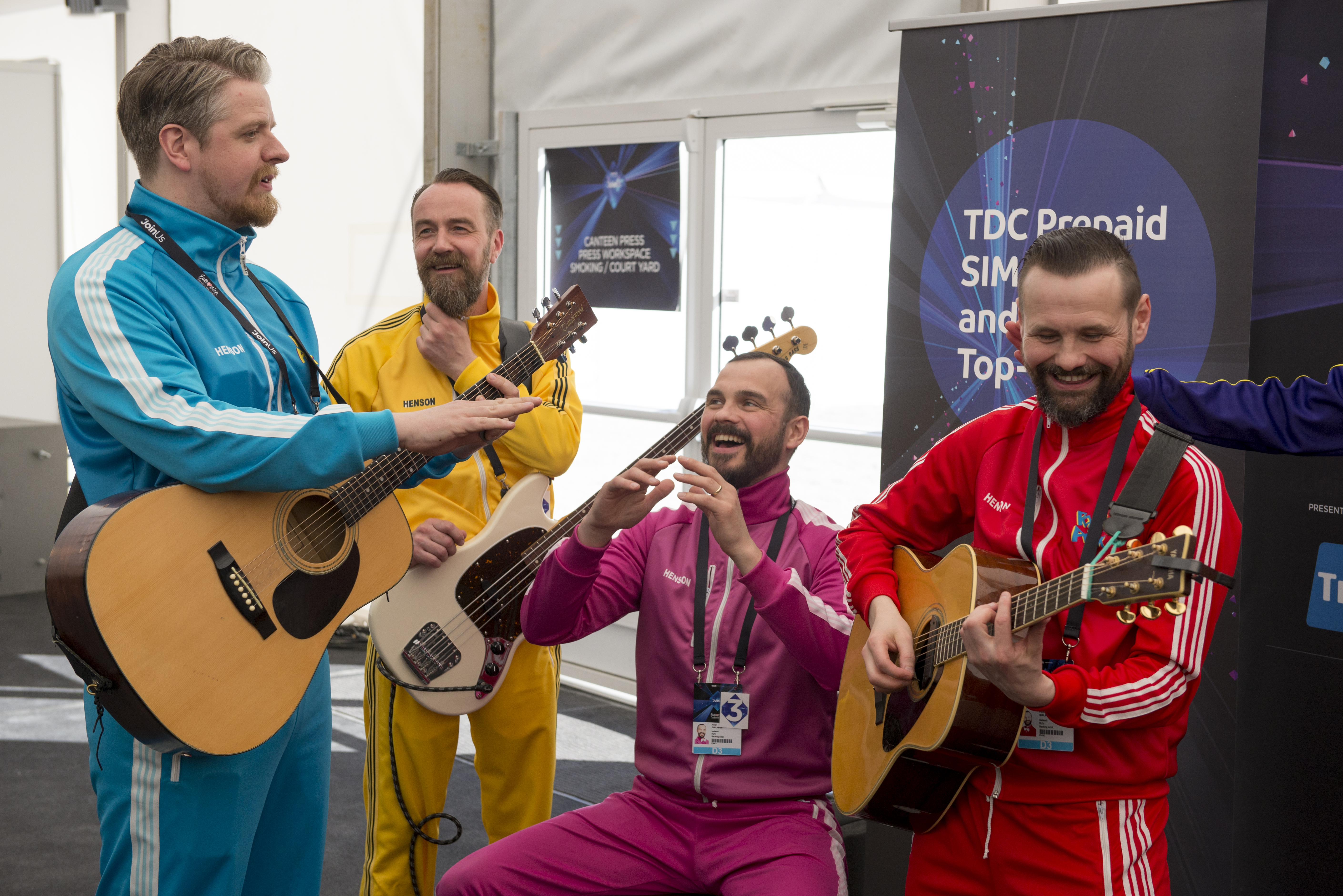 Pollapönk at a Meet & Greet during the Eurovision Song Contest 2014 Copenhagen. (Help translate this text)